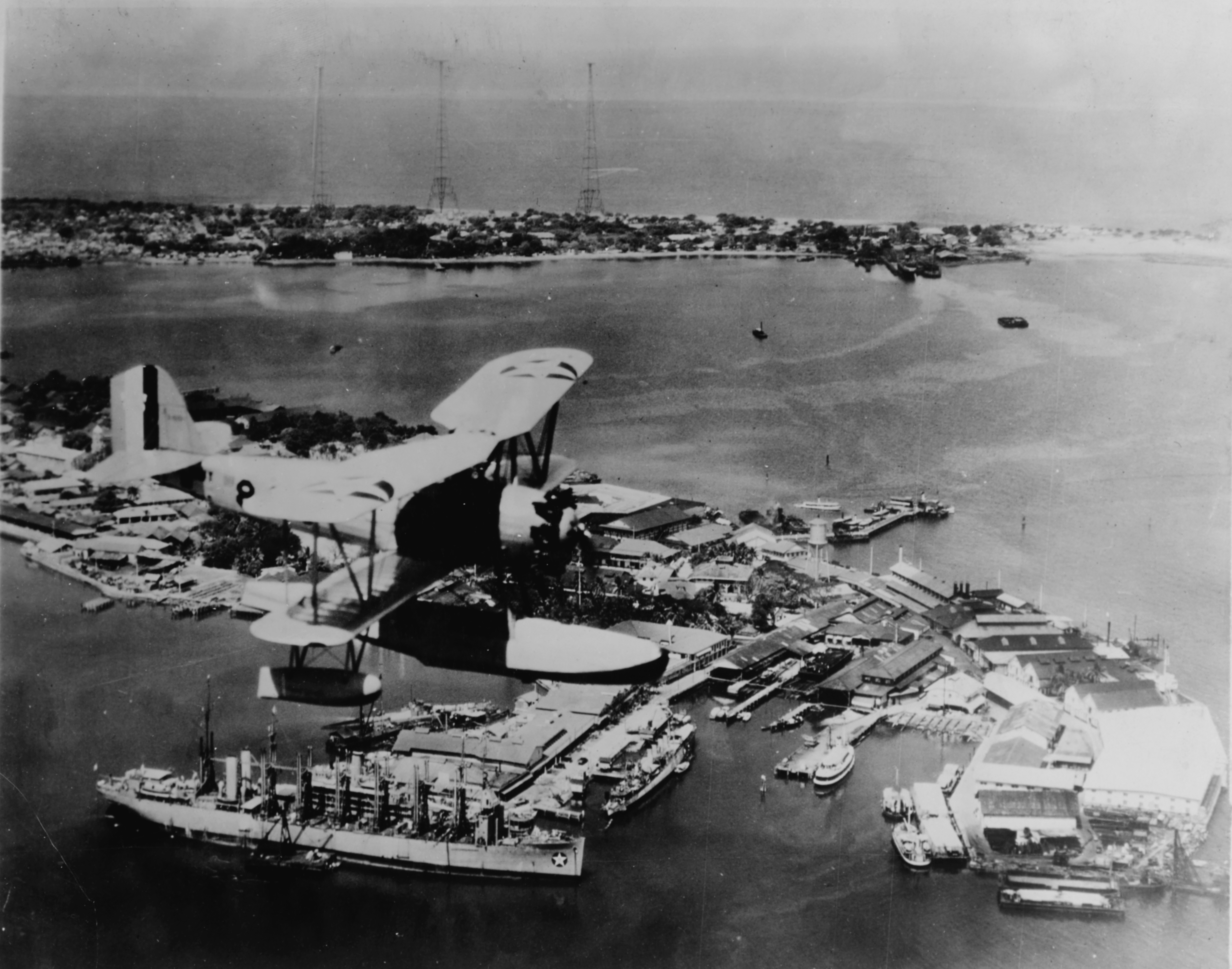 A U.S. Navy Vought O2U Corsair floatplane flying over the Cavite Navy Yard, Philippines, circa 1930. The seaplane tender USS Jason (AV-2) is docked in the yard. Sangley Point is visible in background with the Naval Radio Station.